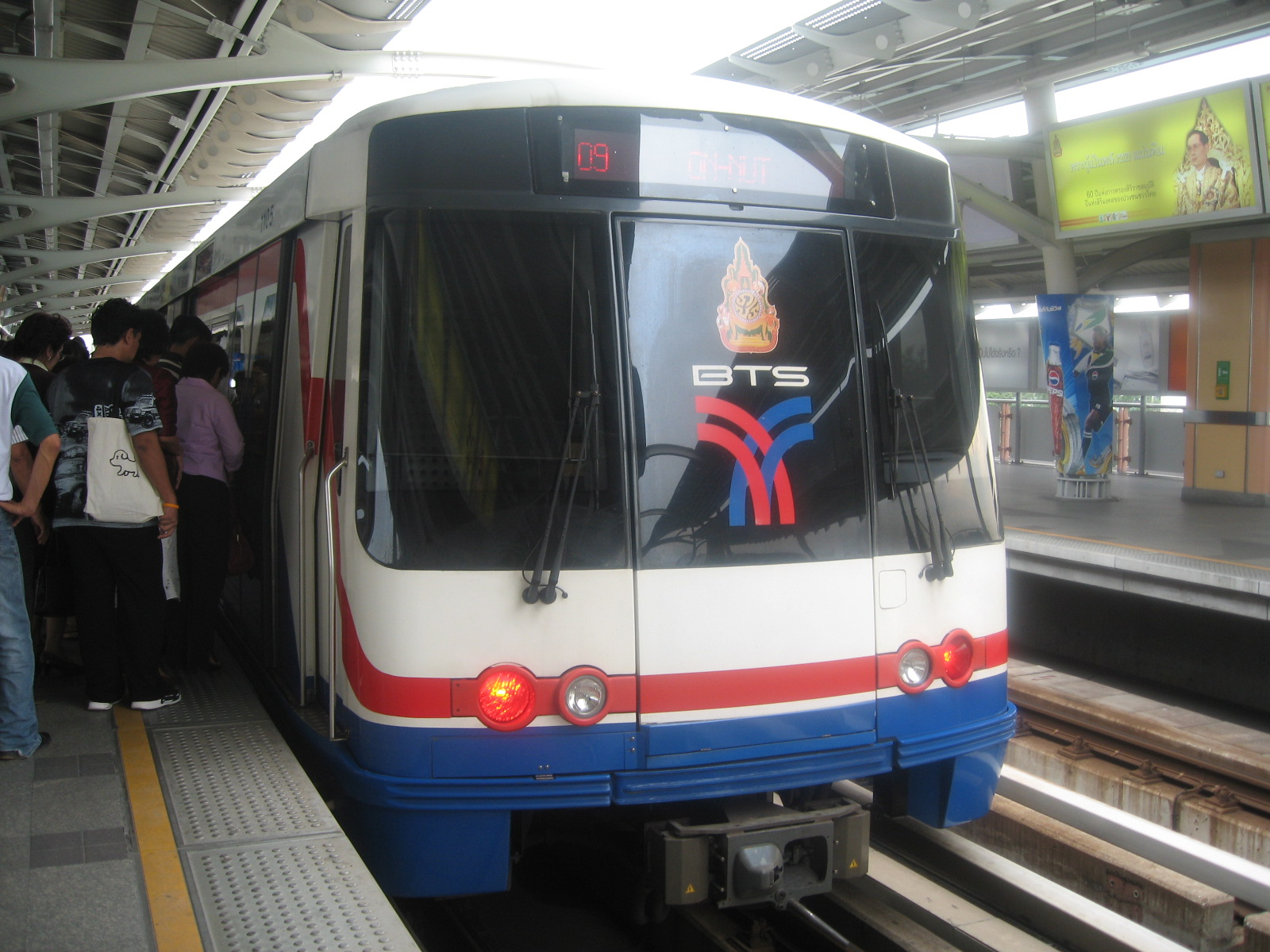 Bangkok Skytrain exterior at Mo Chit BTS.